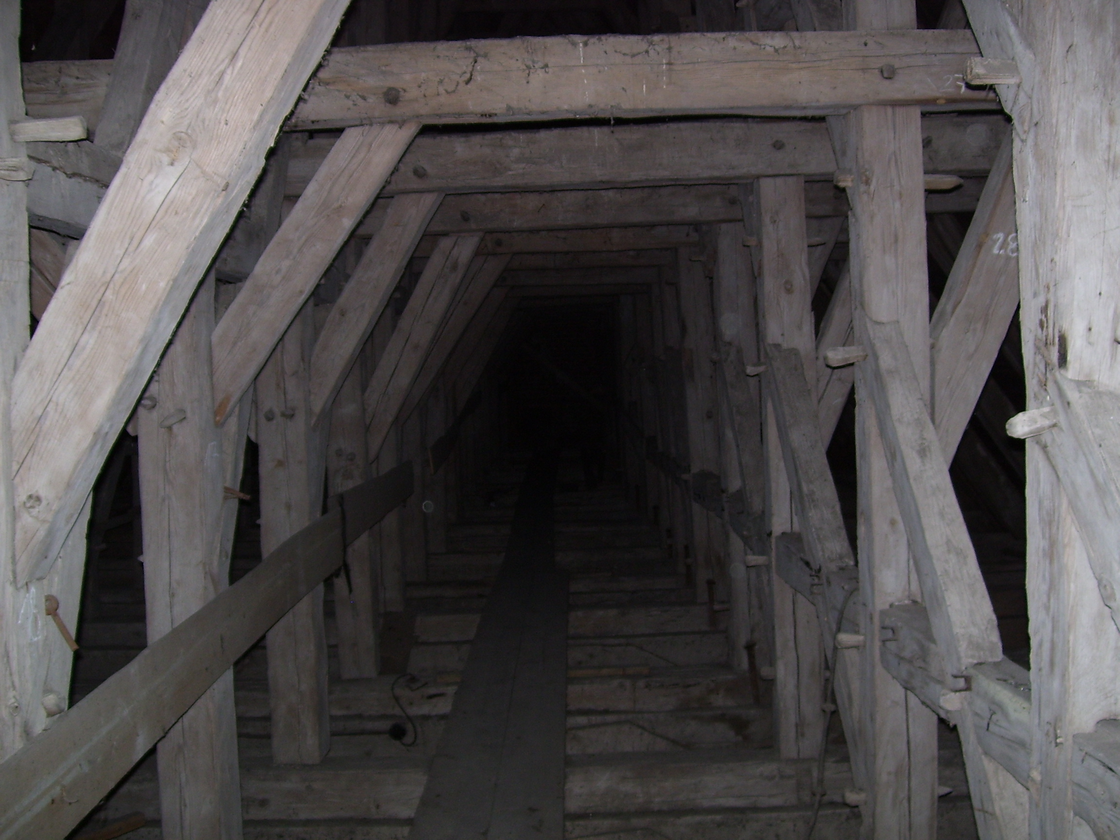 The church in Mołtajny, roof construction